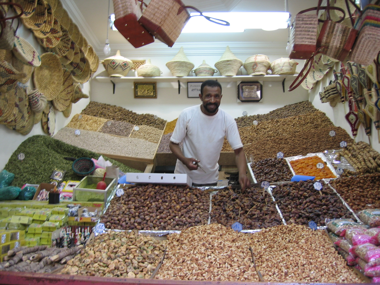 A shop in the bazar